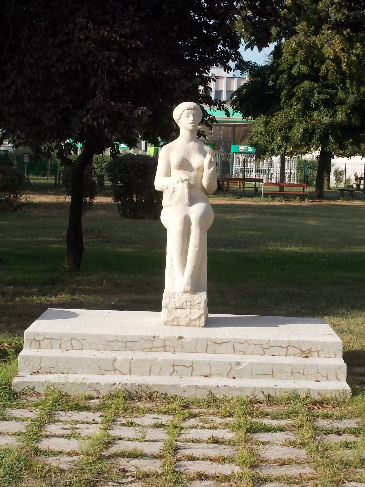 Singing girl by Magda Hadik (1968 limestone statue). - Széna Square, Nyíregyháza, Szabolcs-Szatmár-Bereg County, Hungary.